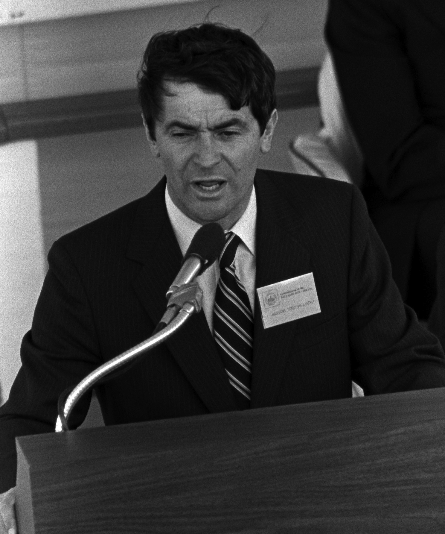 "Ted L. Wilson, Mayor of Salt Lake City, Utah, addresses guests attending the commissioning ceremony for the nuclear-powered attack submarine USS SALT LAKE CITY (SSN 716)"